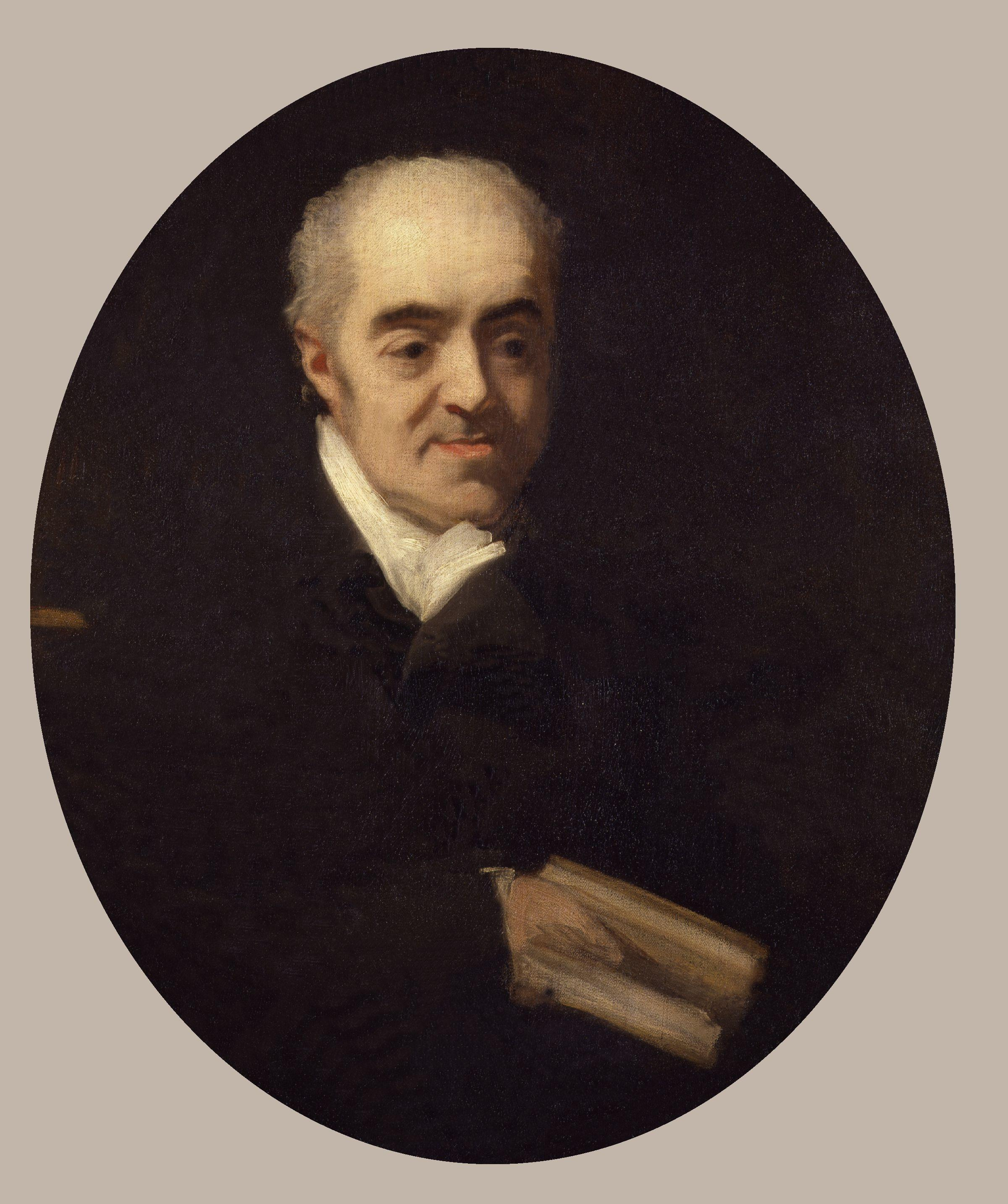 Samuel Rogers, by Thomas Phillips (died 1845). All images in this batch have been confirmed as author died before 1939 according to the official death date listed by the NPG.